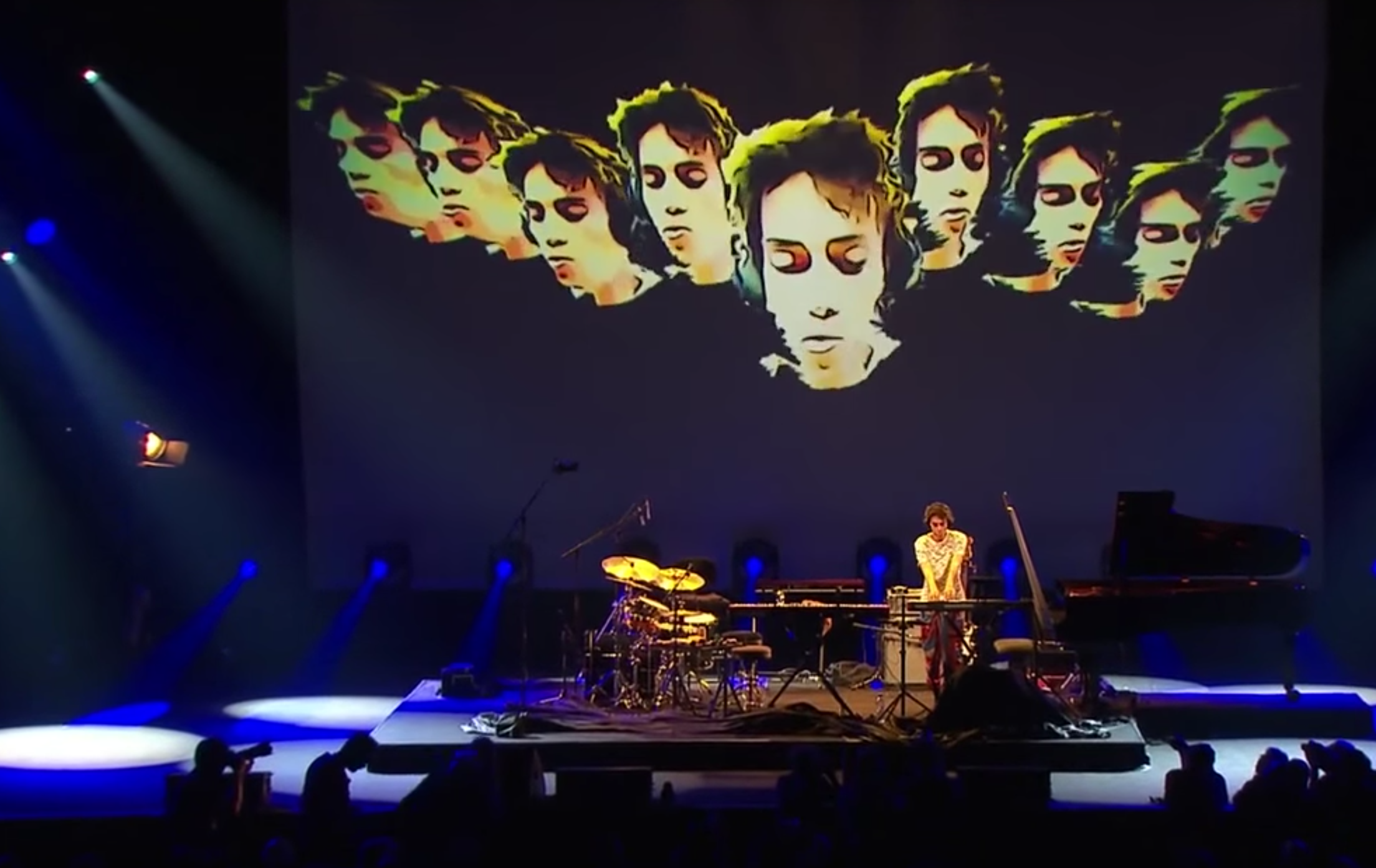 Screenshot of a Video (taken by the company I work at) that shows Jacob Collier performing at the Montreux Jazz Festival